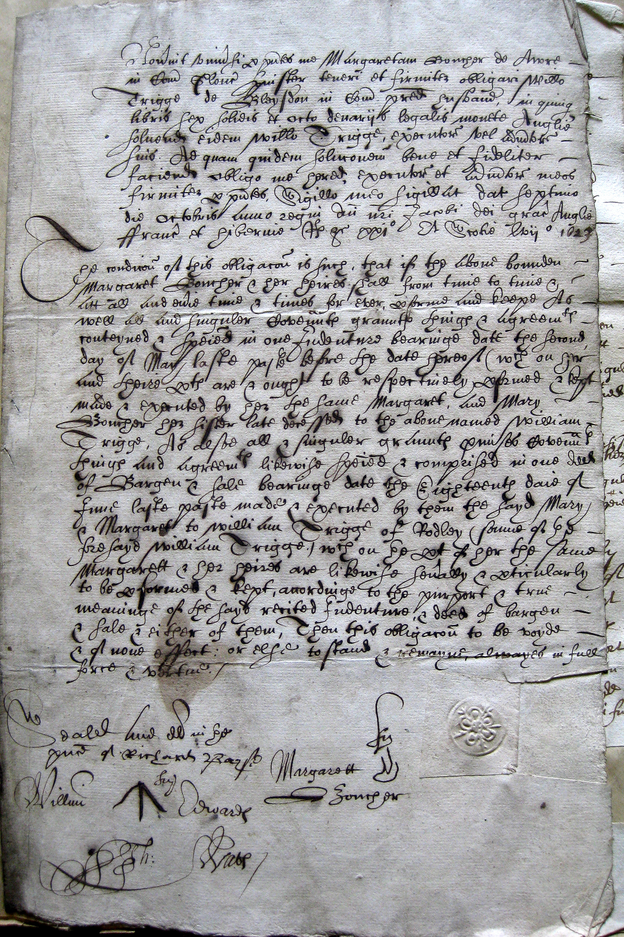 Manuscript page written in secretary hand, using Latin and English